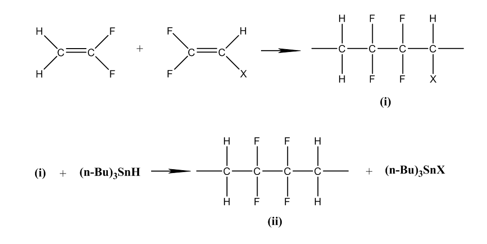 Ferroelectric-wiki-w2